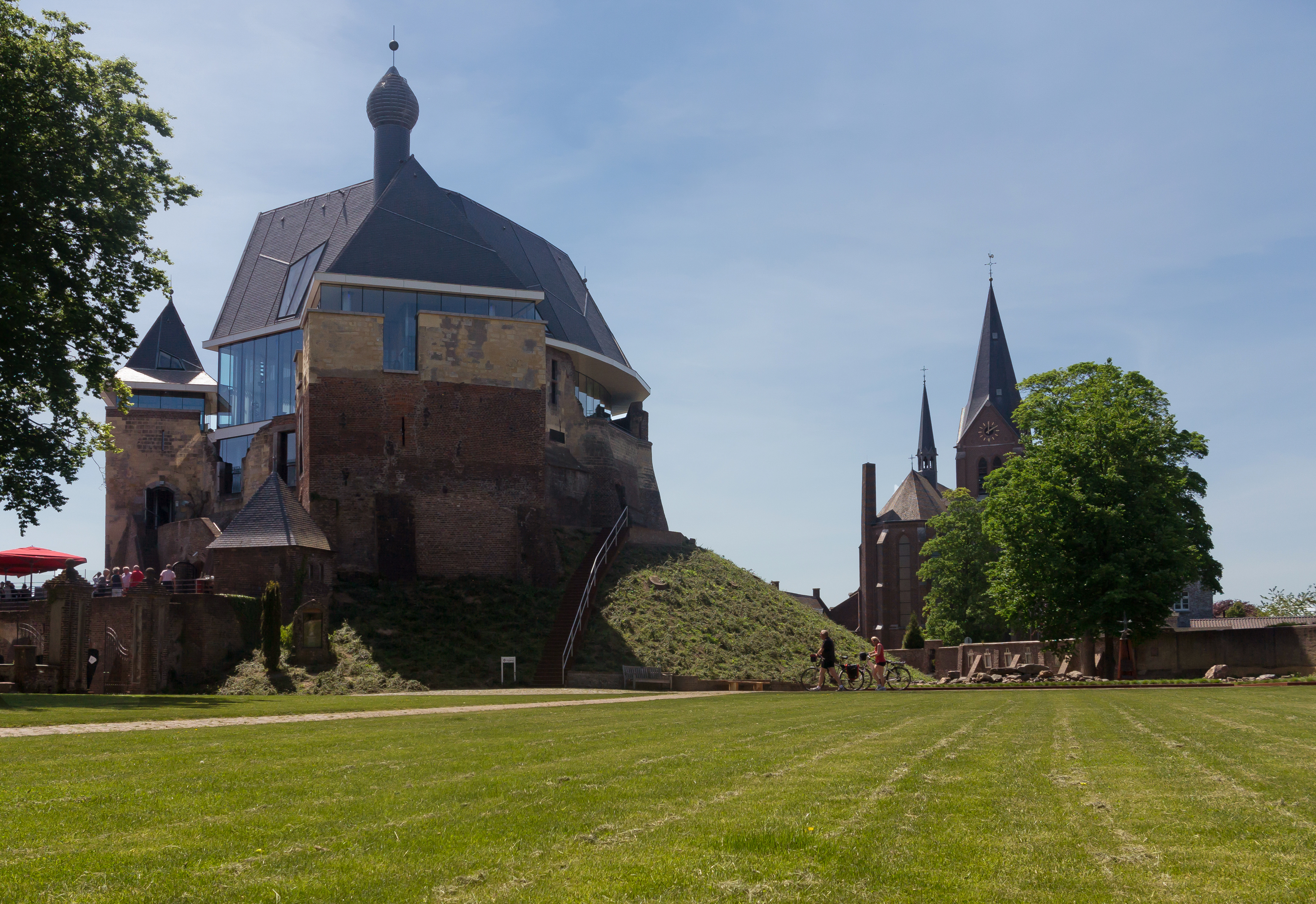 Kessel, hostel (de Neerhof ) and catholic church (de Onze Lieve Vrouwe Geboortekerk) in the background